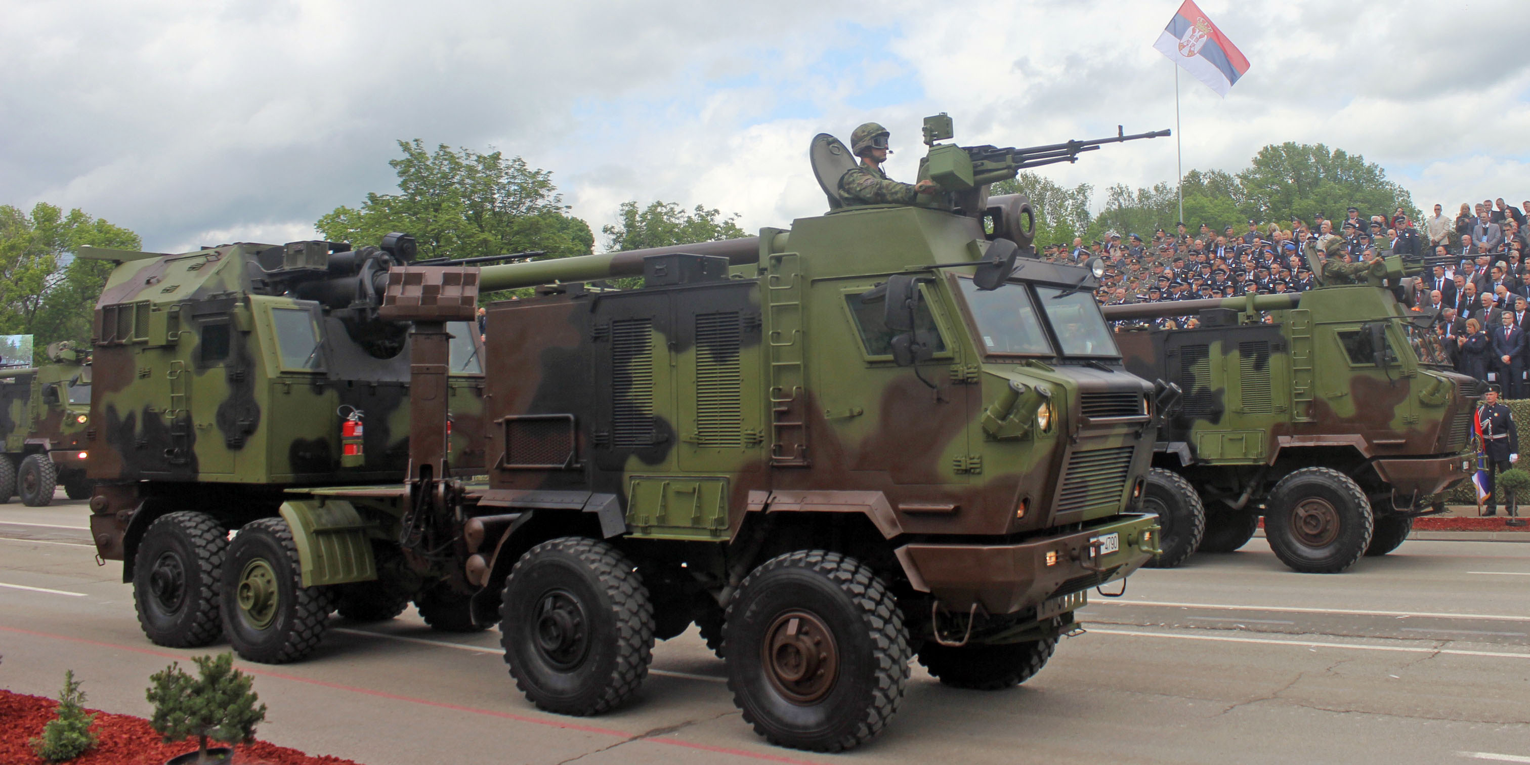 New 155mm self-propelled howitzers Nora B-52 M-15 of Serbian Army at military parade in Niš.